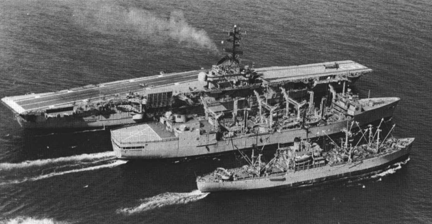 A Wichita-class replenishment oiler (probably USS Wichita (AOR-1)) refueling the training carrier USS Lexington (CVT-16) and a C2 type ship, circa 1970.